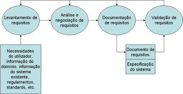 Coarse grain